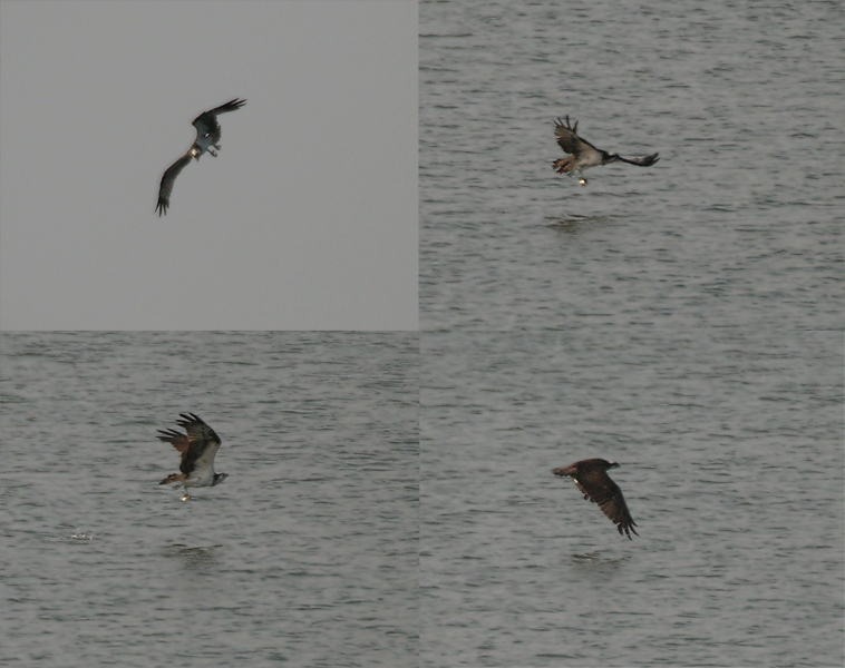 Osprey Pandion haliaetus in Kawal Wildlife Sanctuary, Andhra Pradesh, India.